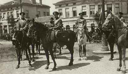 Boris III, Tsar of Bulgaria among senior officers